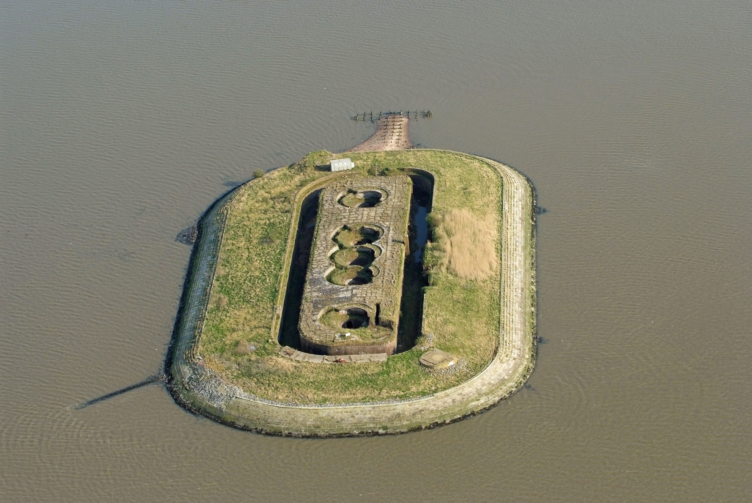 Island Langlütjen II, artificial island north of the coast of the district Wesermarsch in Lower Saxony, Germany (Photo flight from Nordholz-Spieka to Oldenburg and Papenburg)